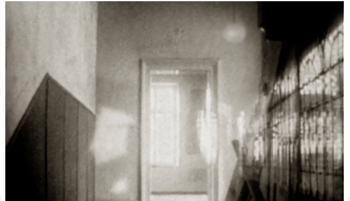 SANATORIUM BELLVUE - KREUZLINGEN CH - IN SHUTDOWN CONDITION